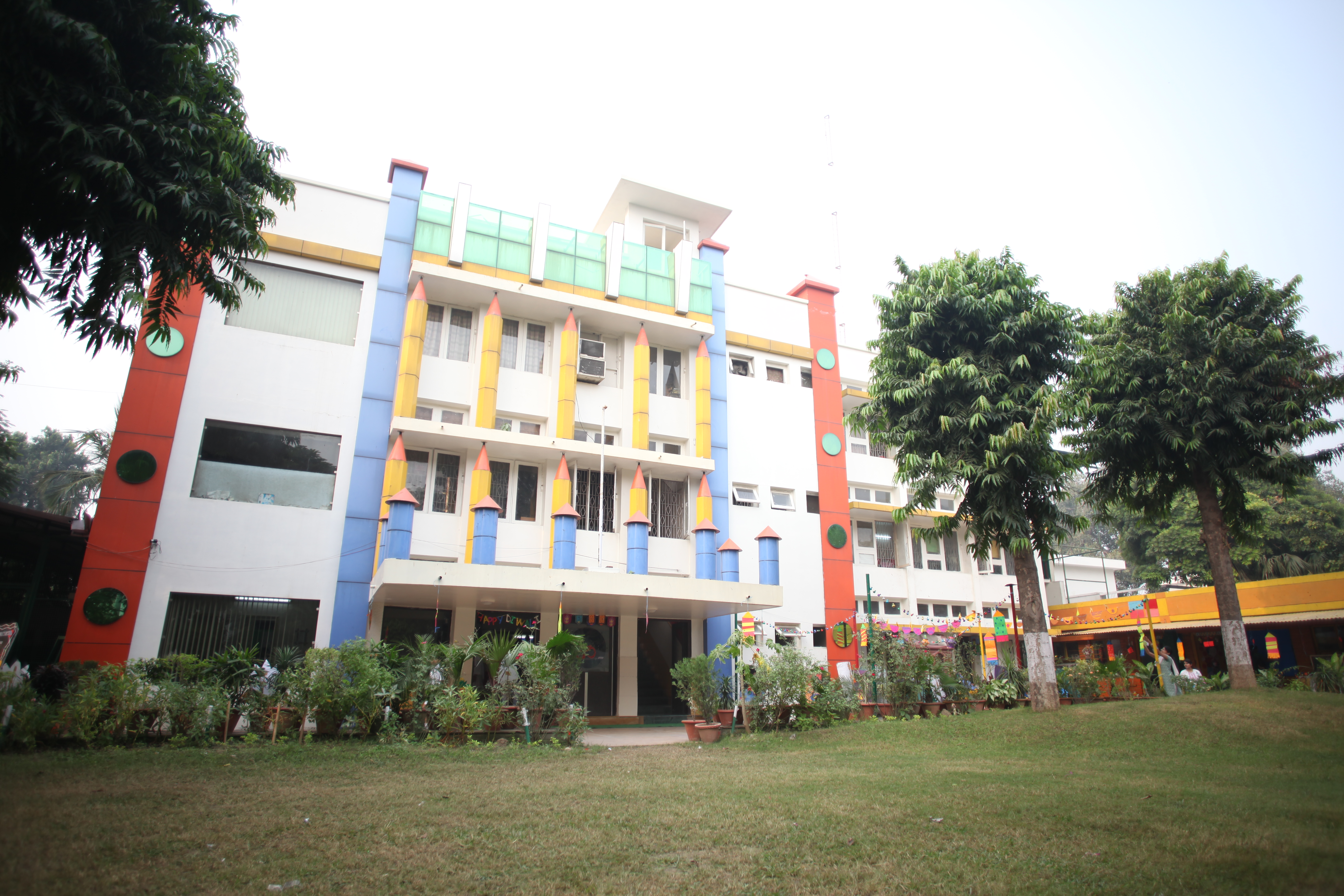 Delhi Public School Servodaya Nagar , DPS Kanpur , Delhi Public School Kanpur , DPS Servodaya Nagar . DPS Sarvodaya Nagar , DPS Kids Servodaya Nagar